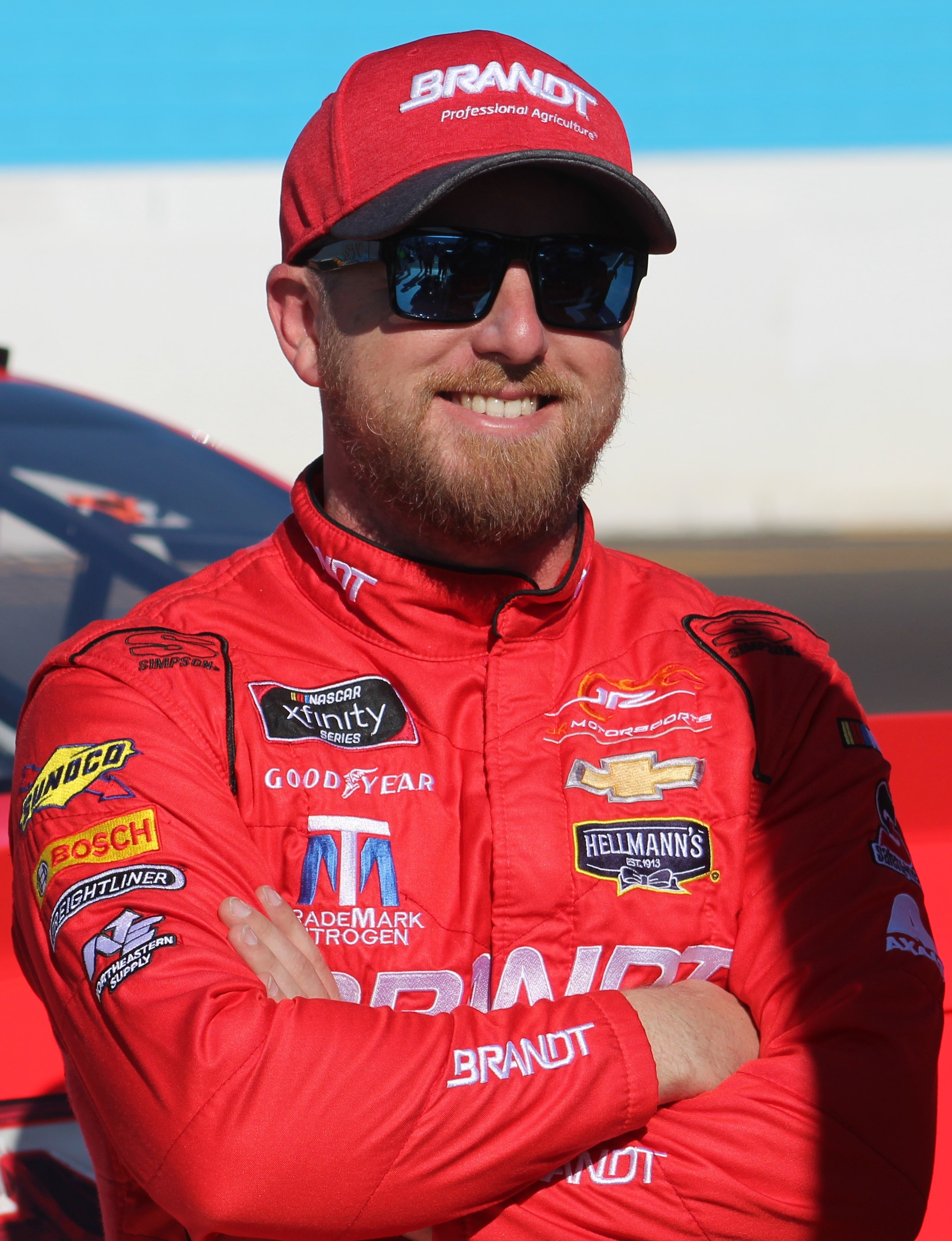 Justin Allgaier at ISM Raceway in 2018